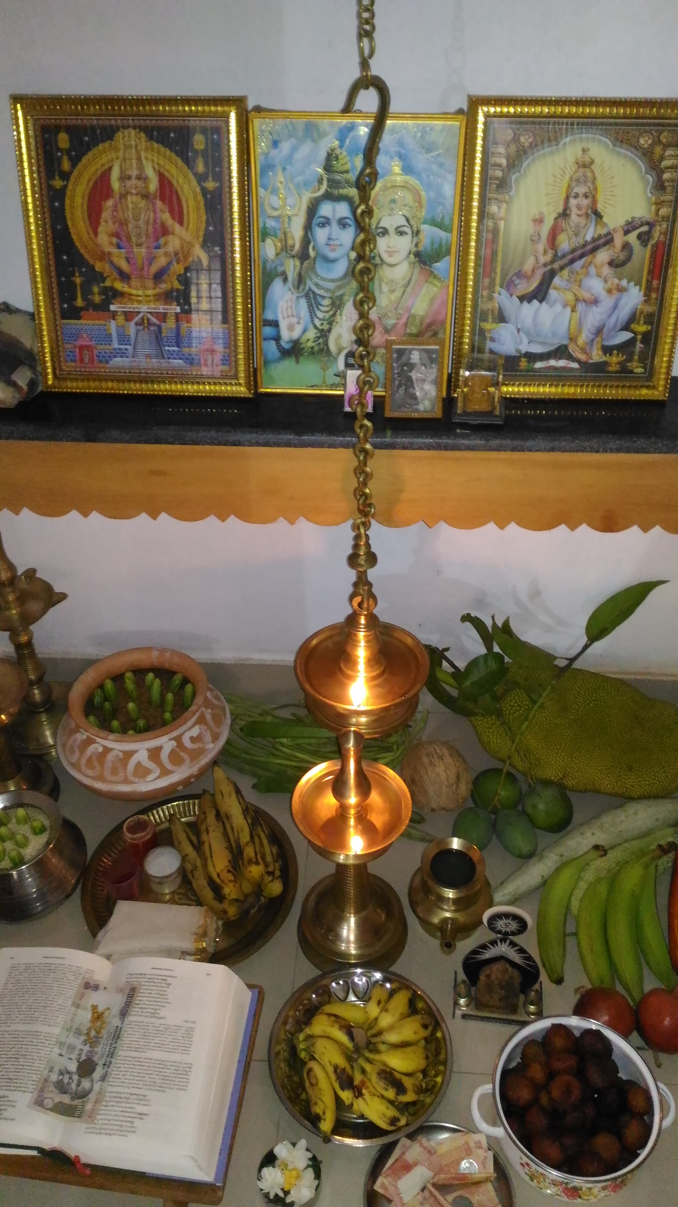 Items arranged for vishukani